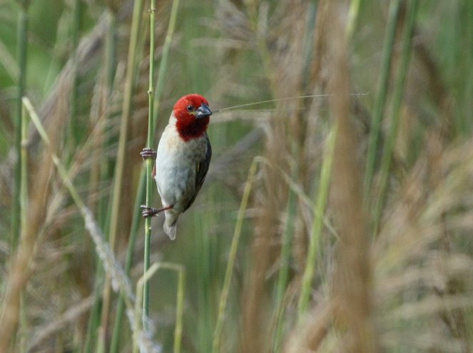 A Red-headed Quelea in wetlands southwest of Pietermaritzburn, South Africa. It has a stem of grass in its beak. Location: Small wetland at -29.731468,30.250699